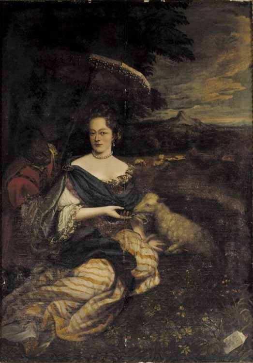 Portrait of Princess Antoinette of Brunswick-Wolfenbüttel (1696-1762)